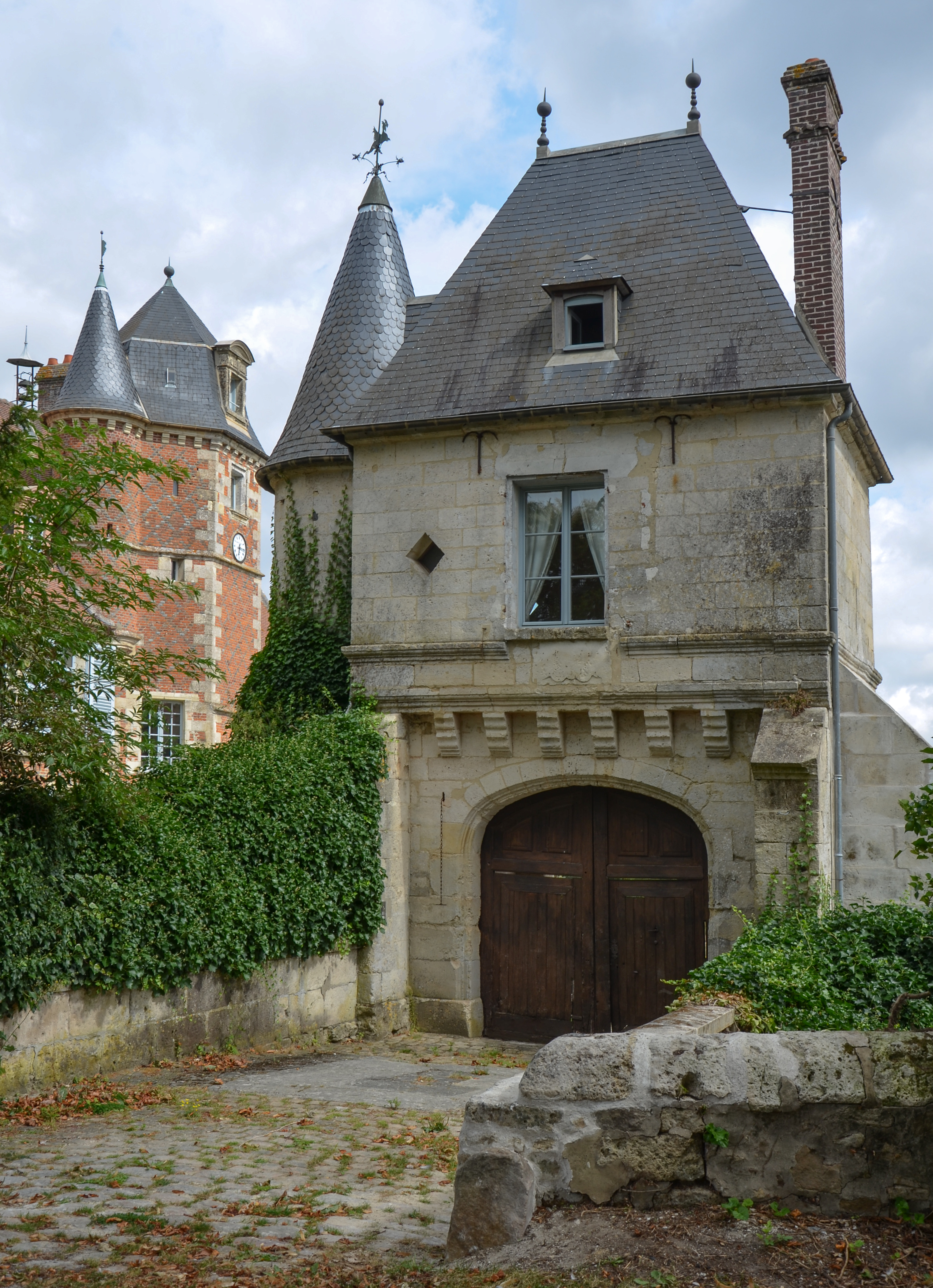 Castle of Oigny-en-Valois, Aisne, Picardie, France